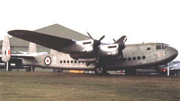 Original photograph taken by an employee of the British government. Image found on